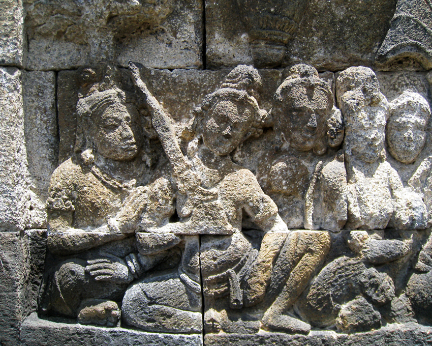 A bas-relief on the wall of Borobudur describe a man holding a medium sized sword or a dagger that similar to keris. The dagger's part that shared similarity with typical keris is the handle and the wider part of the blade near the handle. This suggests that keris is quite well documented and have older tradition in Java.